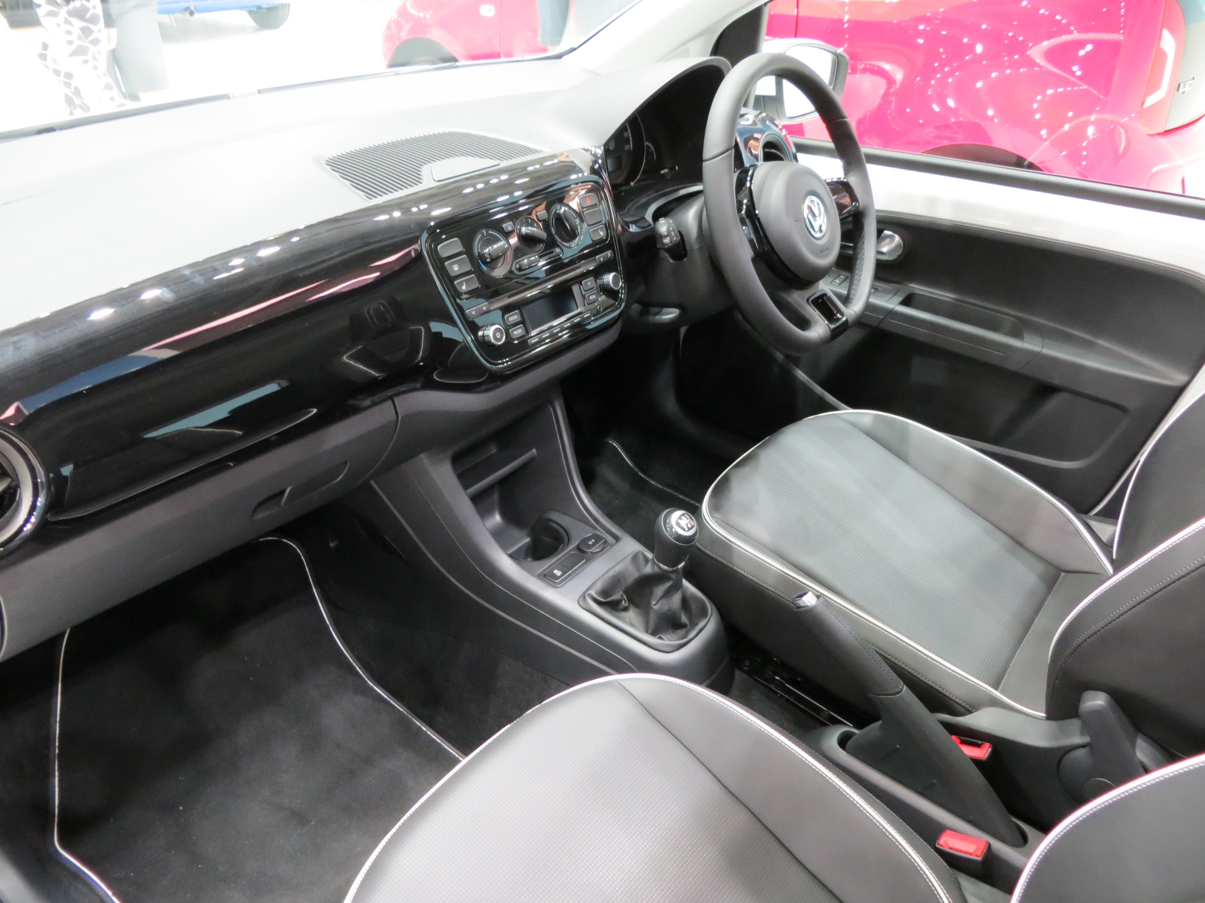 2012 Volkswagen up! (AA MY13) 5-door hatchback. Photographed at the 2012 Australian International Motor Show, Sydney, New South Wales, Australia.